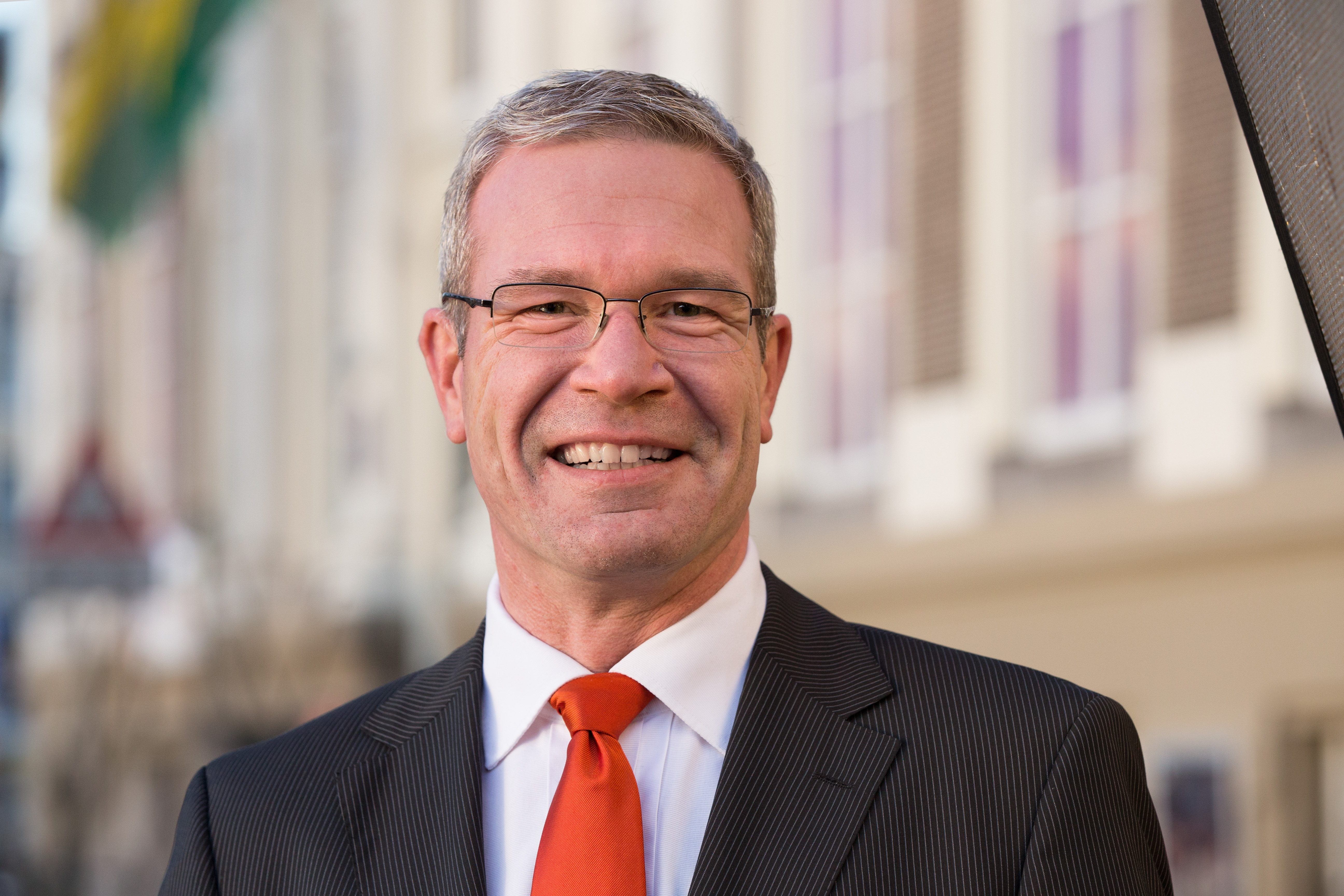 Dutch politician Elbert Dijkgraaf, SGP (2016)